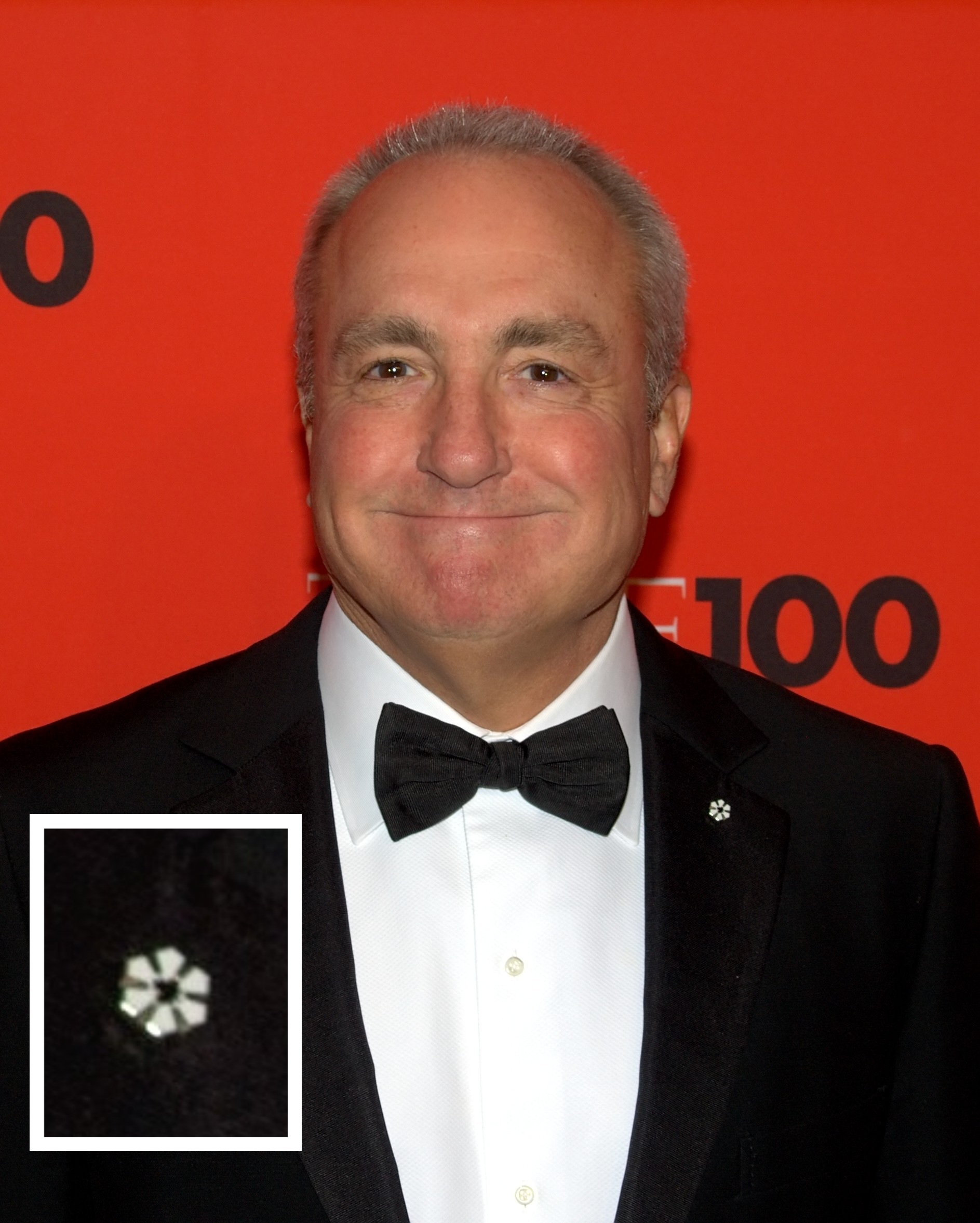 Lorne Michaels at the 2010 Time 100.